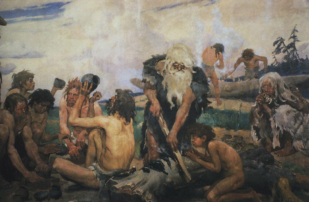 Stone Age. Detail 2